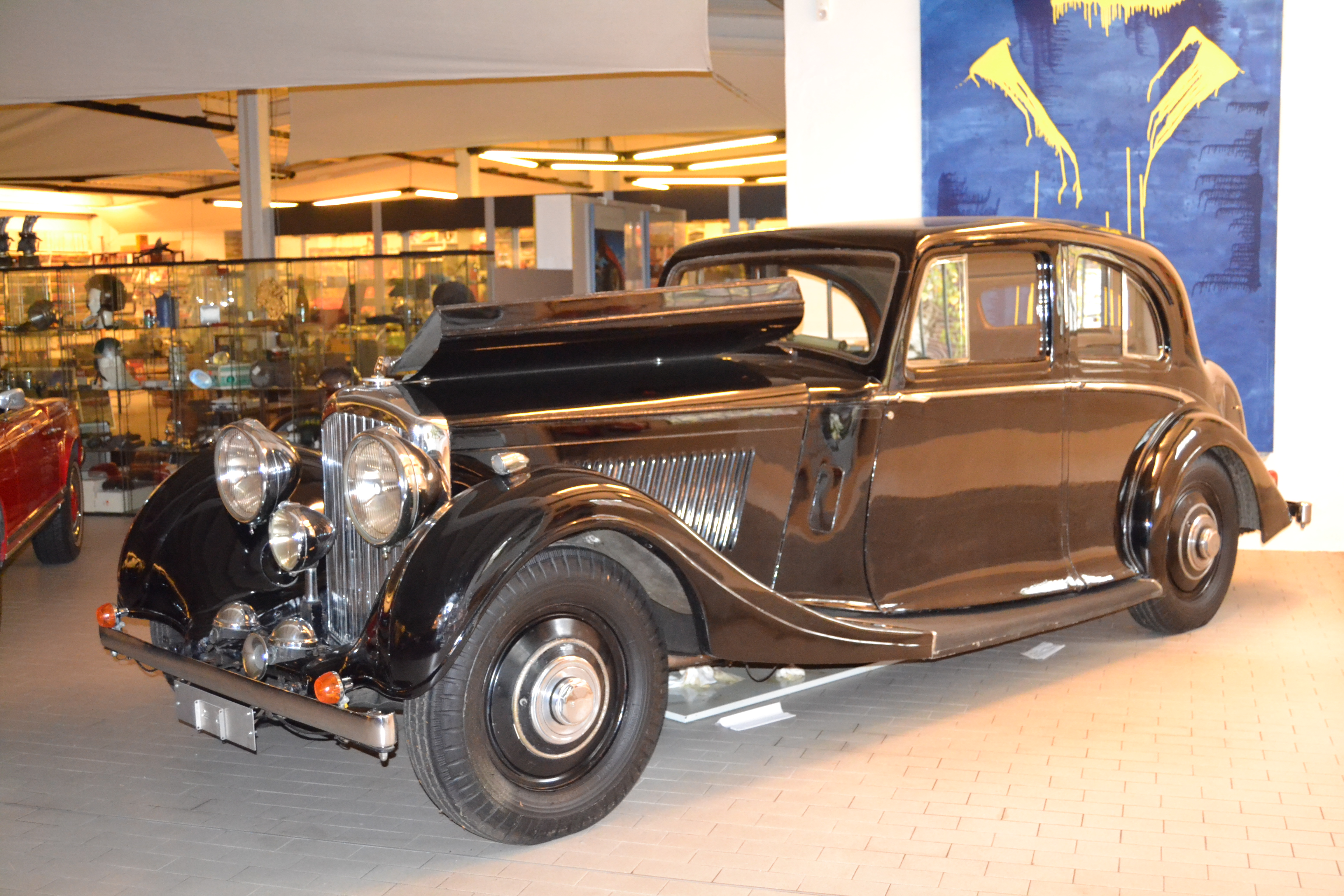 Bentley 4,25 Litre Saloon, Body by Rippon Bros. (1936)